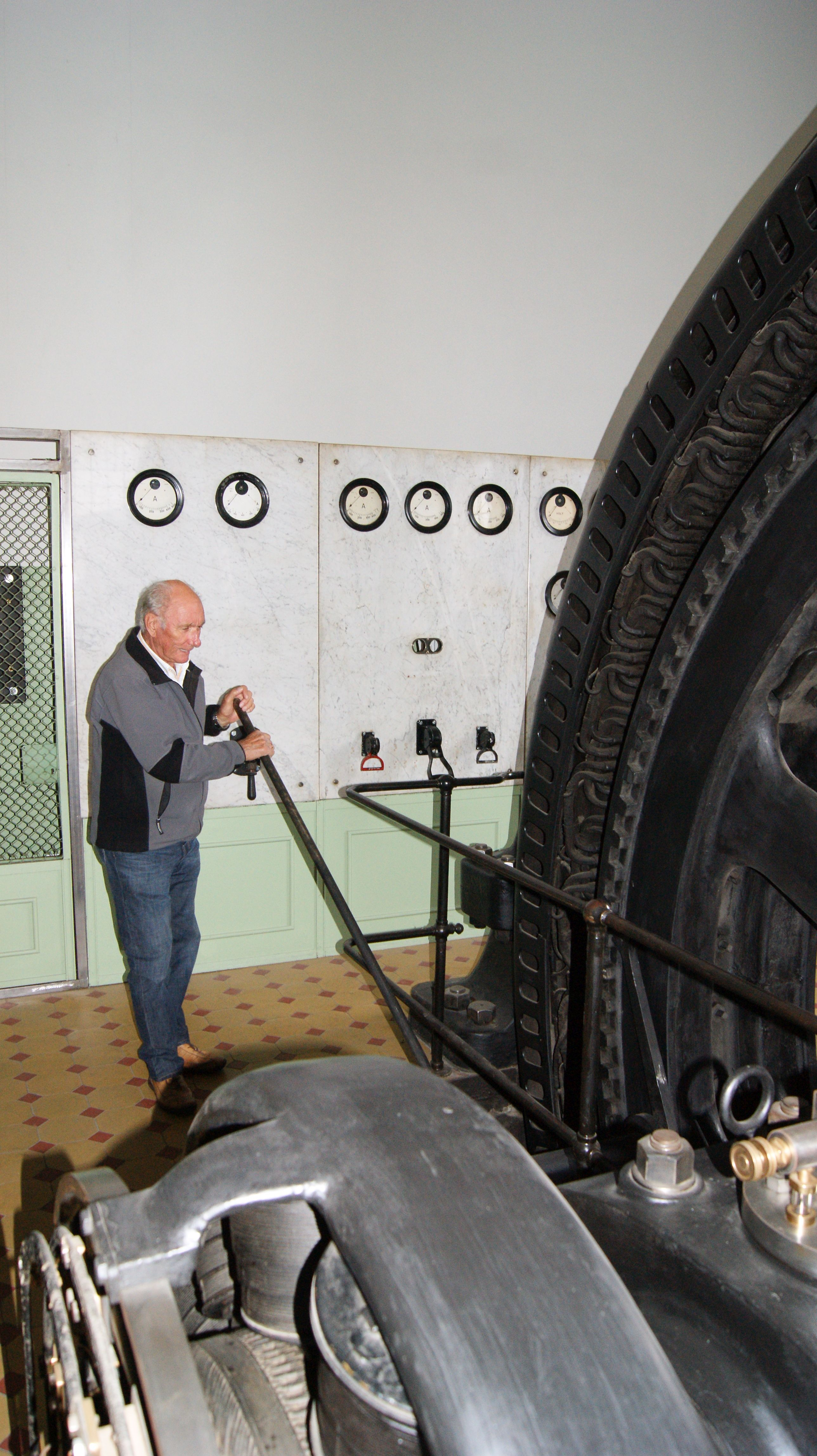 Steam engine Rhombergs Fabrik - Sets the starting position of the steam engine (Generator).